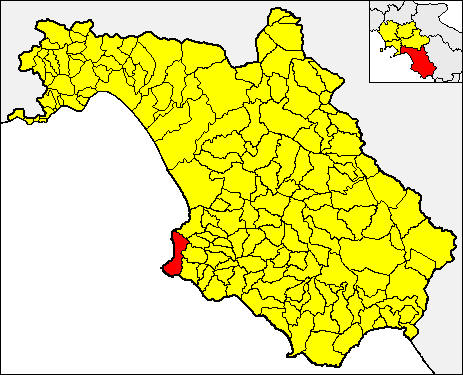 Locator map of the municipality of Castellabate (red) within the Province of Salerno